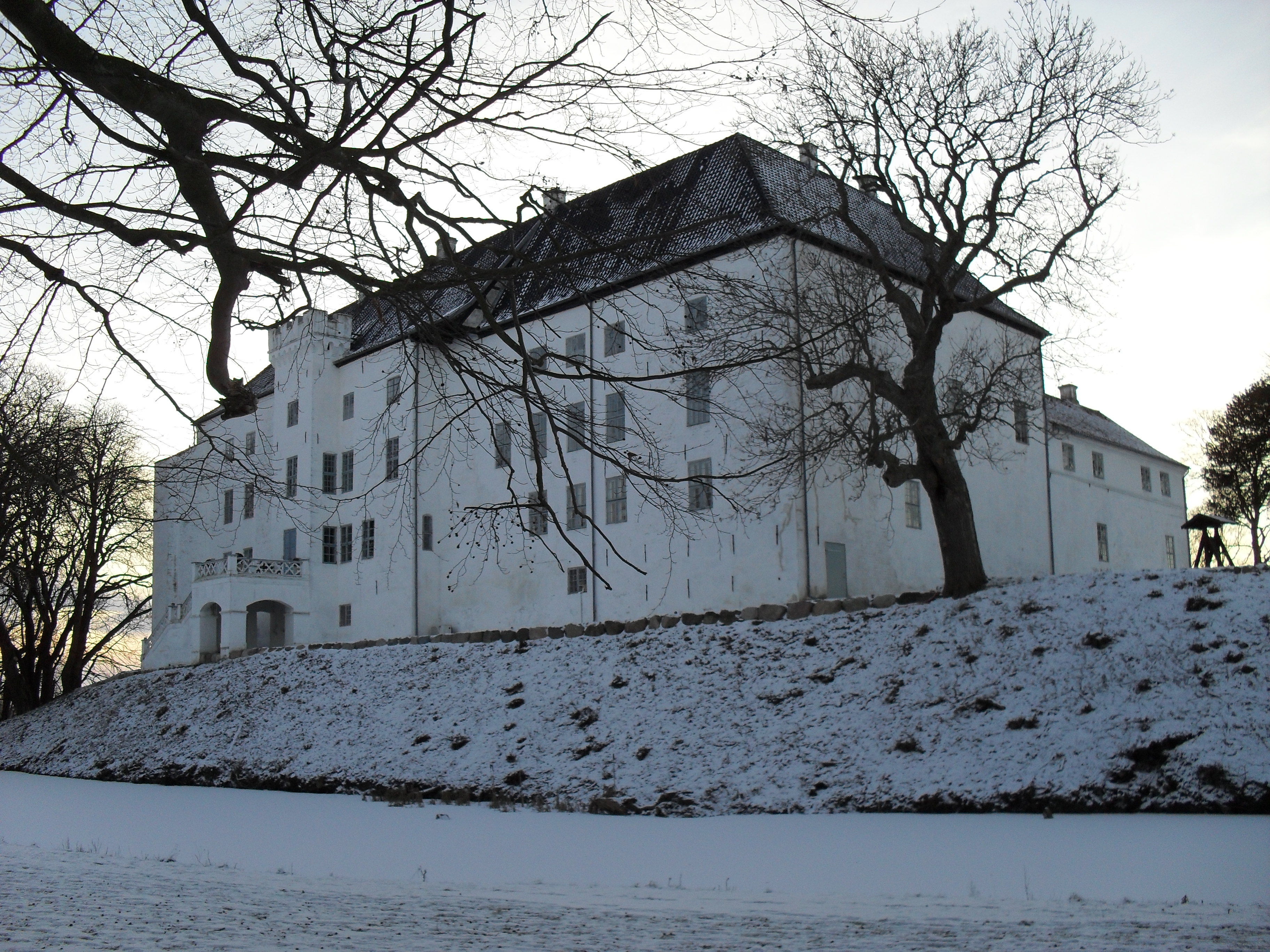 Dragsholm castle in Winter